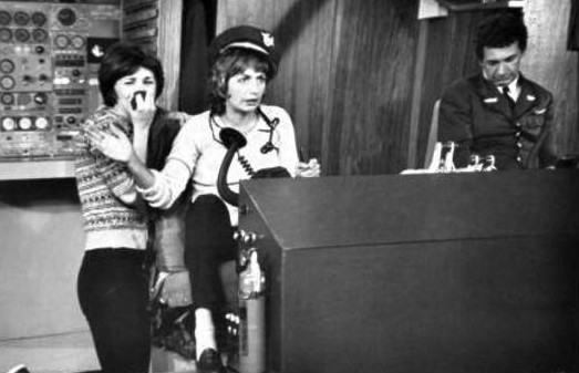 Publicity photo from the season premiere of Laverne & Shirley. In this episode, the girls accidentally cause their plane's pilot to hit his head and he's knocked out, so it's up to them to fly the plane.